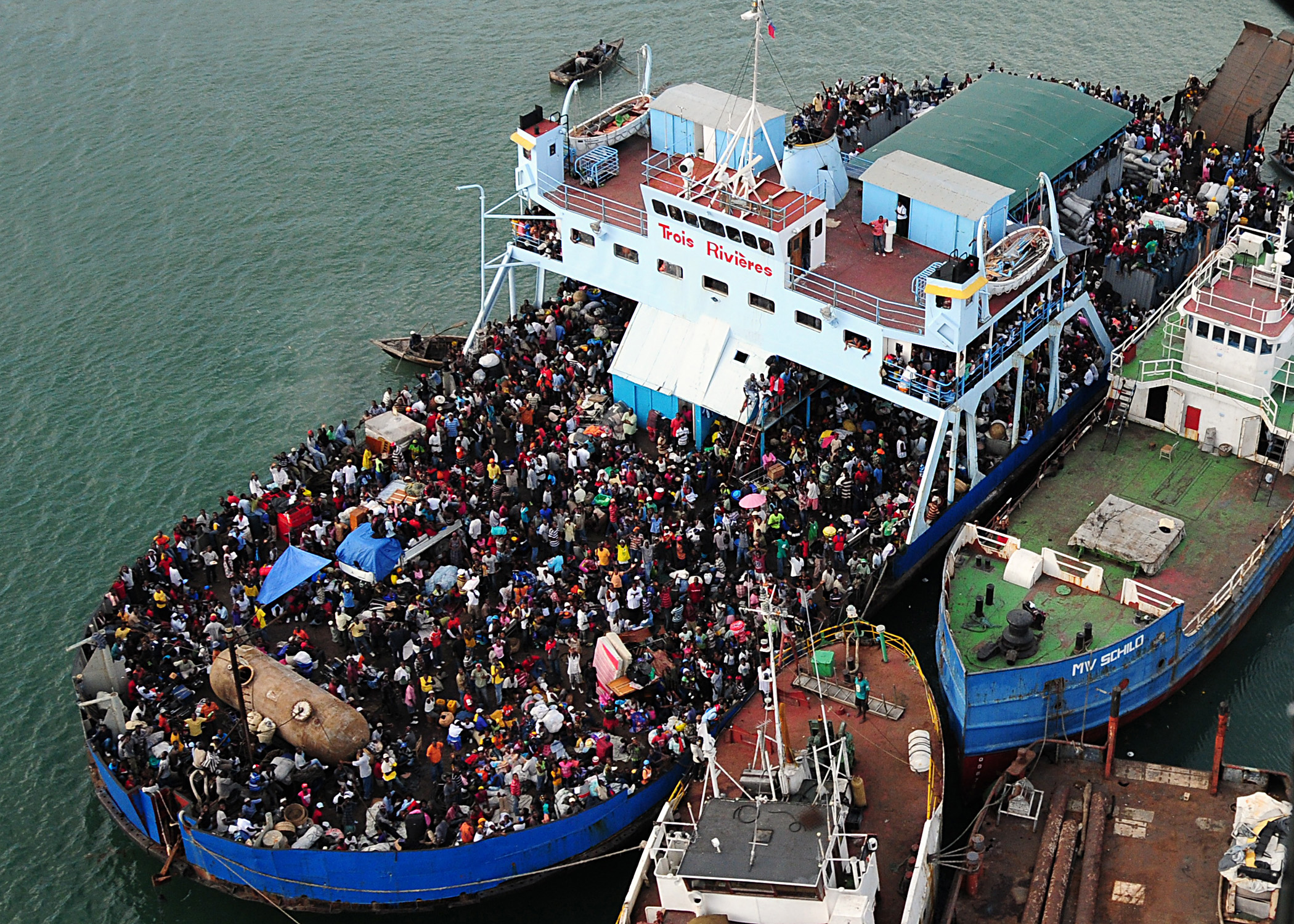 Haitian citizens crowd a ship near a port in Haiti Jan. 16, after earthquake devastation left many homeless, injured and hungry. The aircraft carrier USS Carl Vinson (CVN 70) and Carrier Air Wing (CVW) 17 are conducting humanitarian and disaster relief operations as part of Operation Unified Response after a 7.0 magnitude earthquake caused severe damage Jan. 12, 2010.